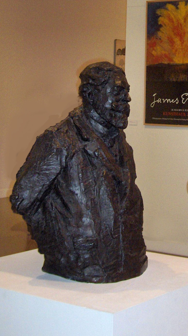 Bust of James Ensor by Rik Wouters; Mu.Zee, Oostende, Belgium